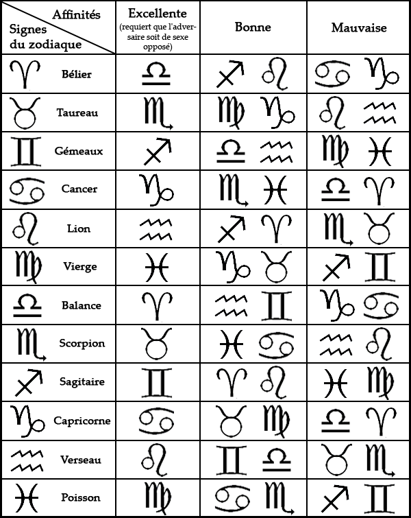 Zodiac compatibility table in Final Fantasy Tactics.